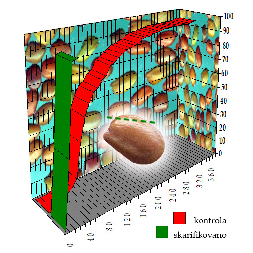 Spartium junceum Dormancy-breaking treatment